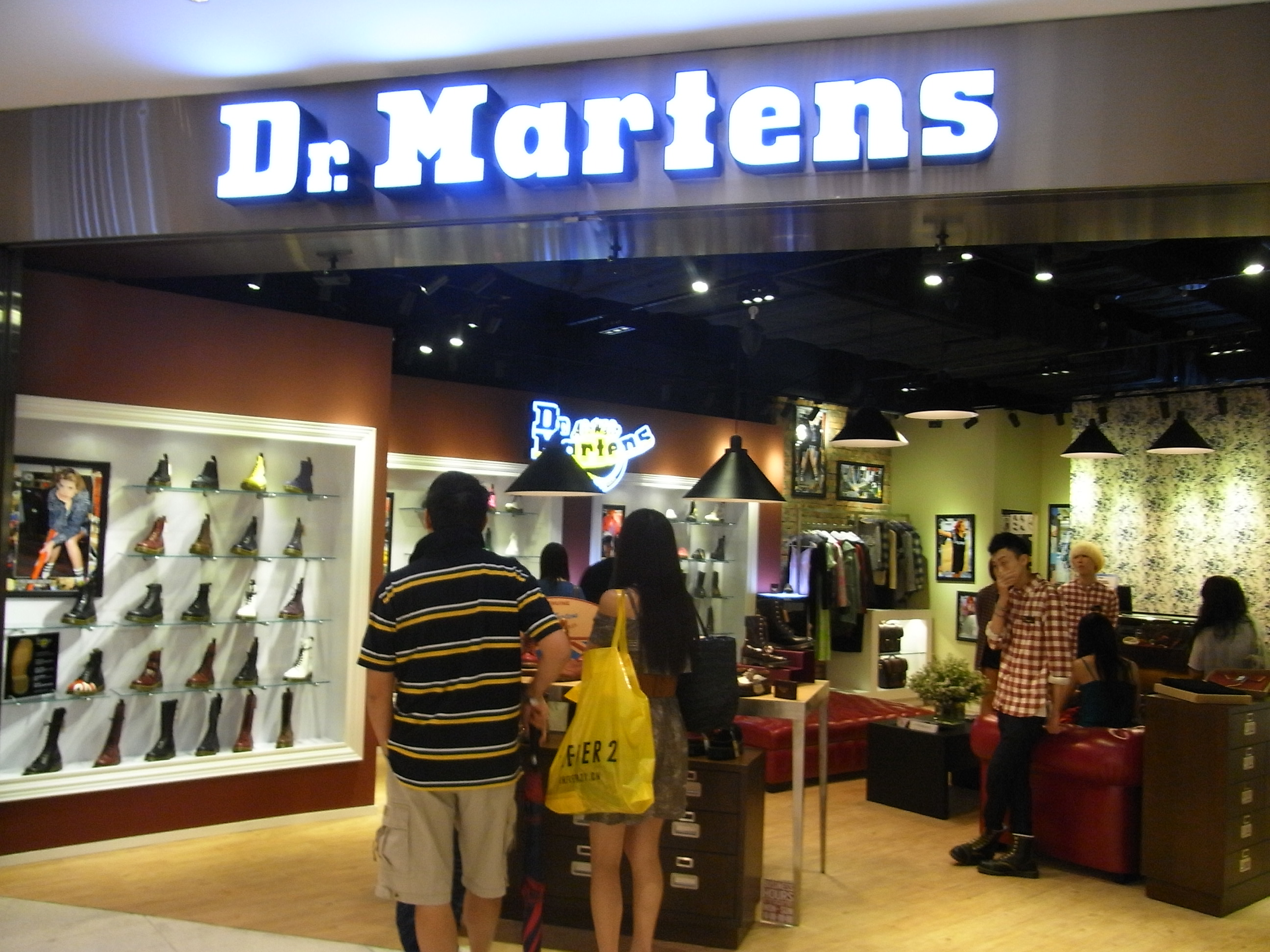 Hysan Place @ Lee Gardens, Causeway Bay, Hong Kong